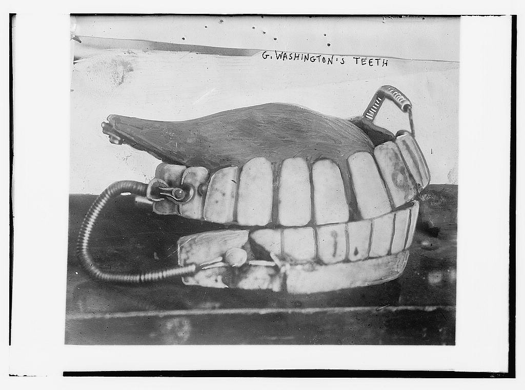 Bain News Service,, publisher. G. Washington's teeth [between 1910 and 1915] 1 negative : glass ; 5 x 7 in. or smaller. Notes: Title from unverified data provided by the Bain News Service on the negatives or caption cards. Forms part of: George Grantham Bain Collection (Library of Congress). Format: Glass negatives. Repository: Library of Congress, Prints and Photographs Division, Washington, D.C. 20540 USA, General information about the Bain Collection is available at Persistent URL: Call Number: LC-B2- 2241-4